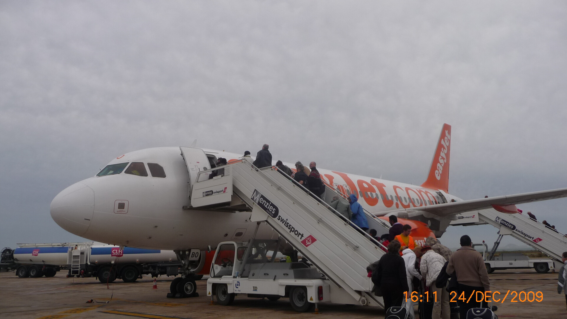 EasyJet Airbus A319-111 (G-EZBO, MSN: 3082) at San Javier Airport, Murcia.